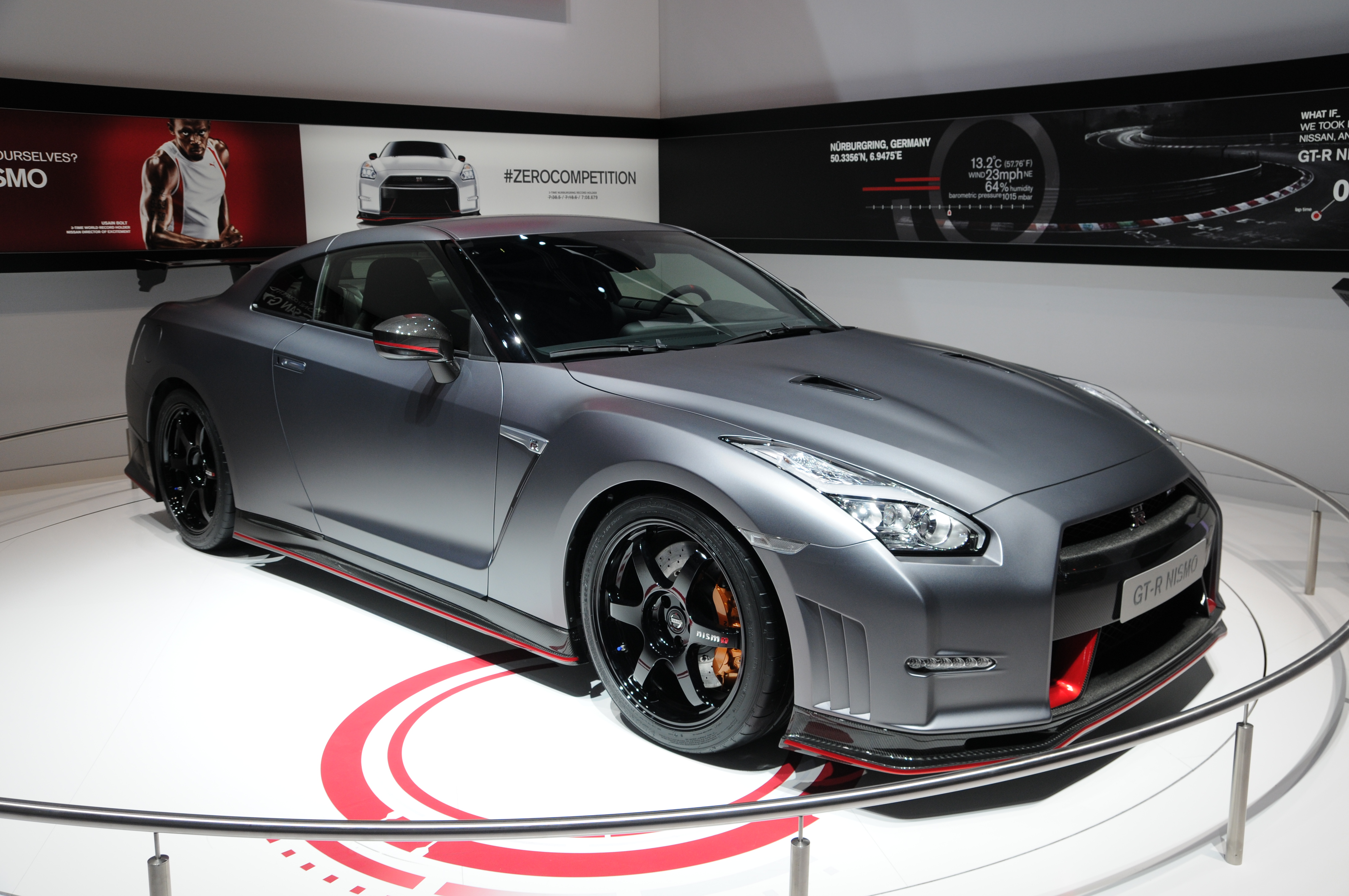 Geneva Motor Show 2014 (photo taken on the first press day)